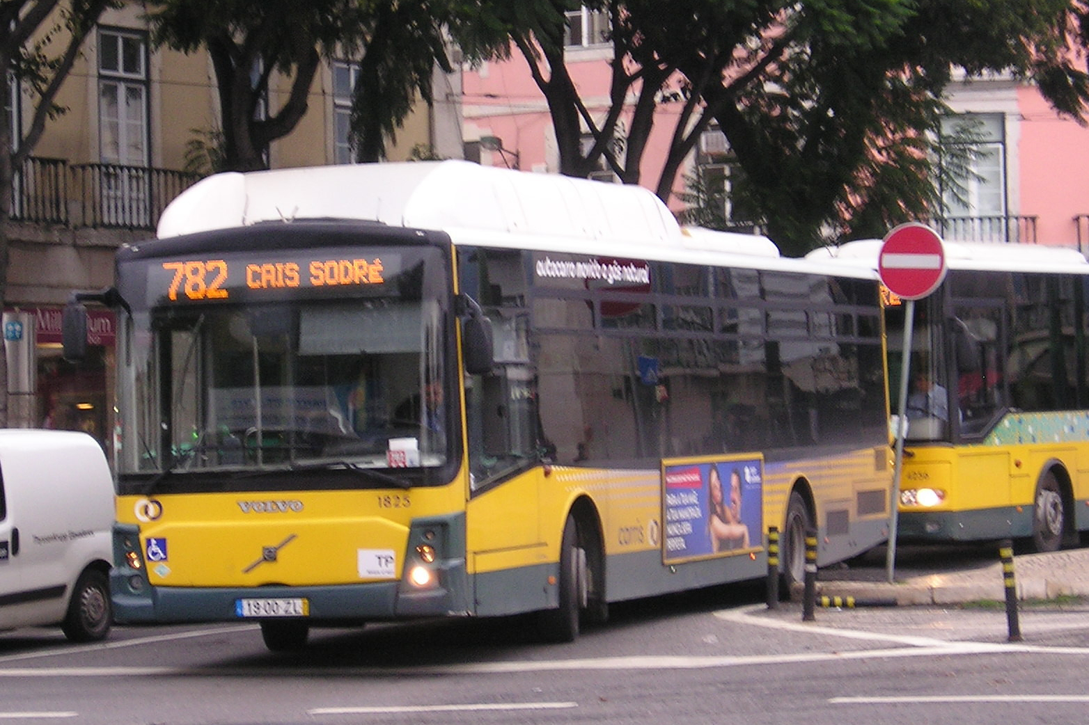 Carris, Lisbon, Portugal. Volvo B10L GNC with Camo B34D body. Photographed October 2014 at the Cais do Sodre terminus.